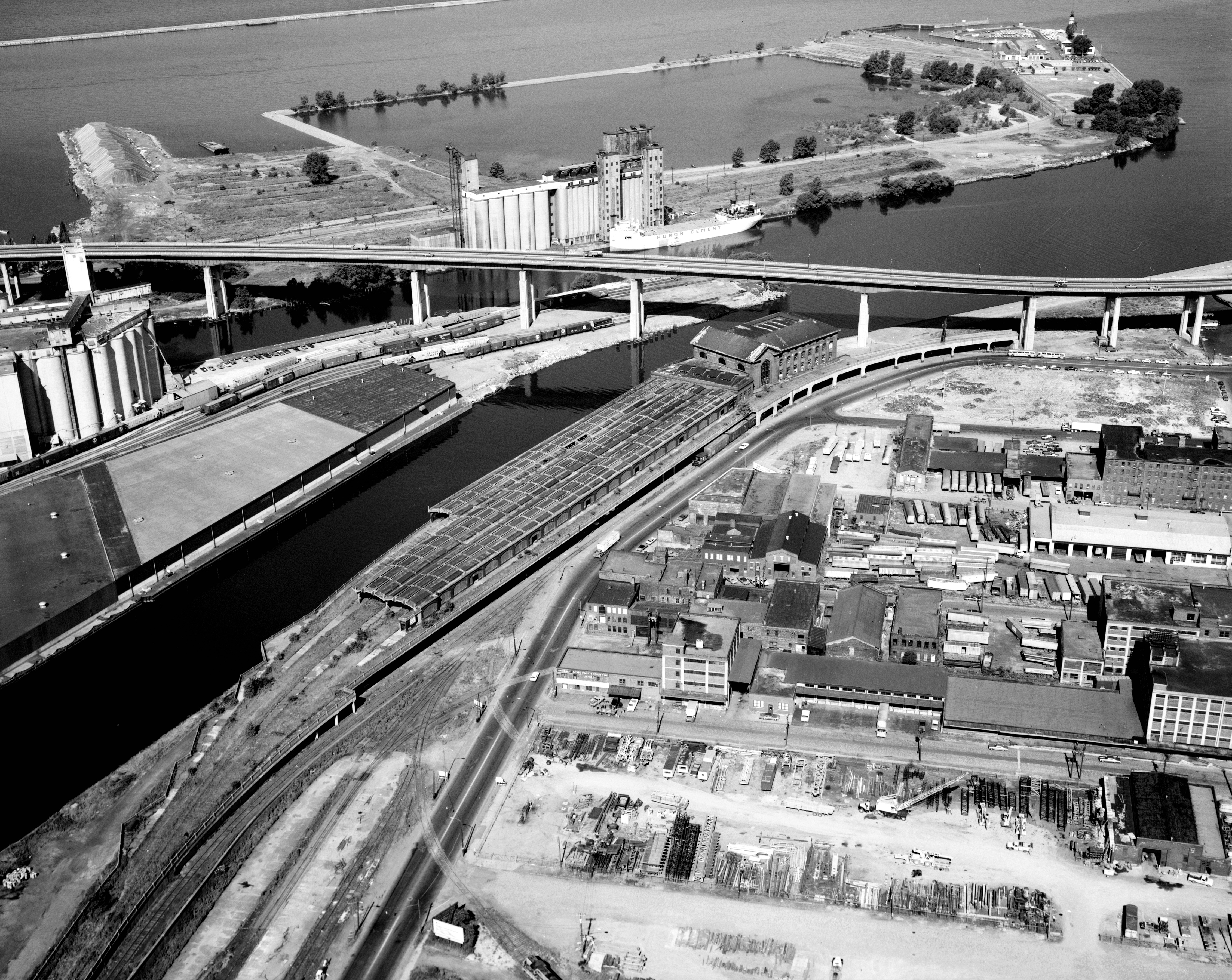 Delaware, Lackawanna & Western Railroad, Lackawanna Terminal, Main Street & Buffalo River, Buffalo, Erie County, NY. Aerial view of terminal from northeast.